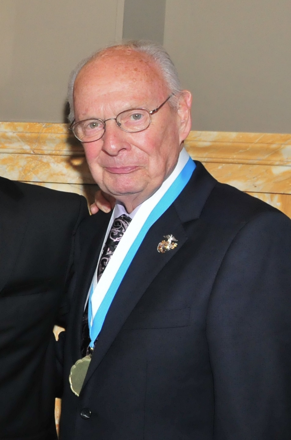 Bill Schonely at an event called the All-Star Salute to Oregon Military, held at the Governor Hotel in Portland, Oregon, on April 20, 2013. Photo by Sgt. Cory Grogan, 115 Mobile Public Affairs Detachment.